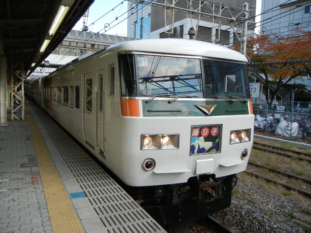 JR-Limited-Express-Odoriko. JR東日本で運行されている特急「踊り子」号, Kawasaki.